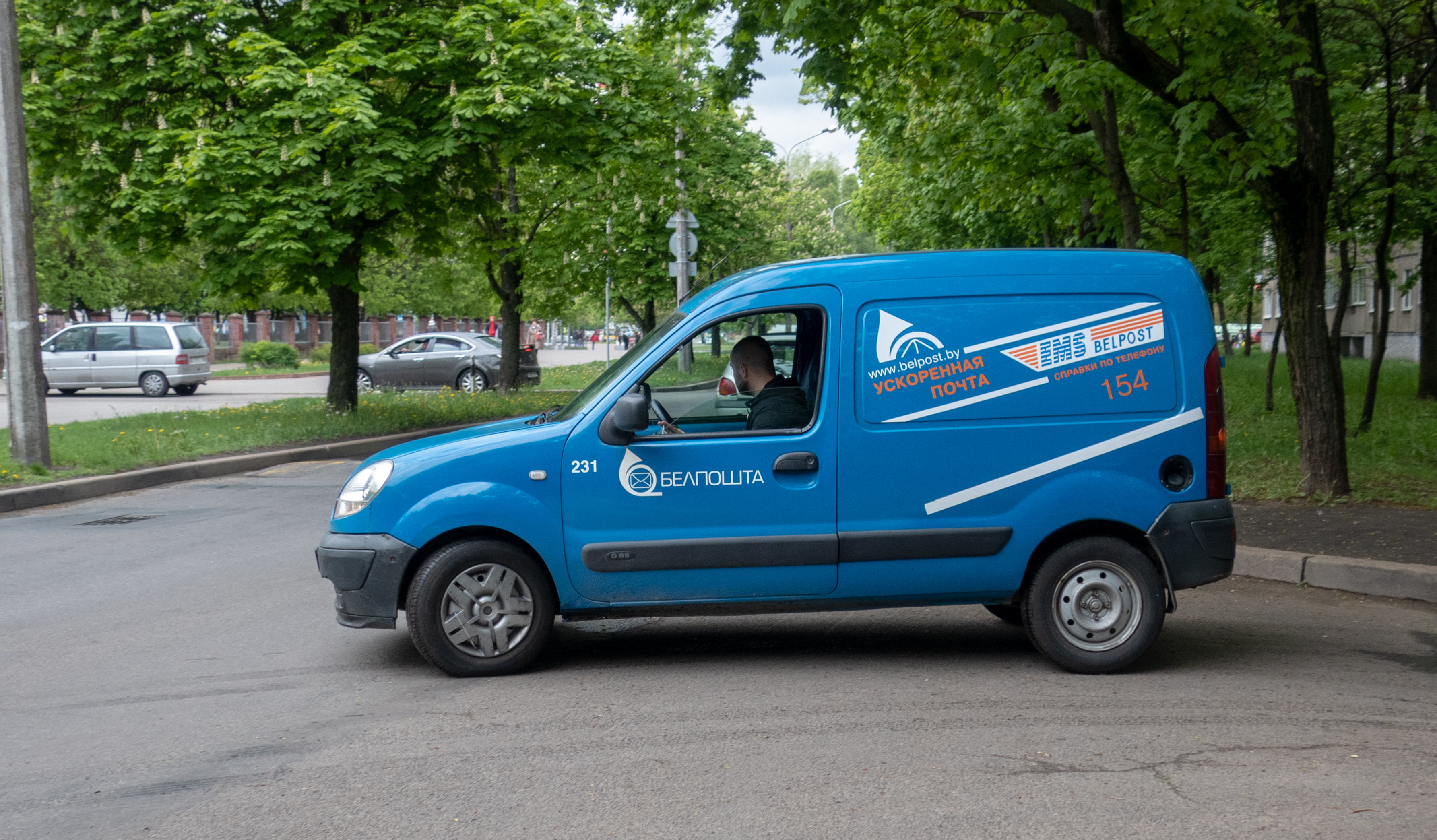 Belpochta (Belarusian Post) vehicle in Minsk (Peugeot Partner?)